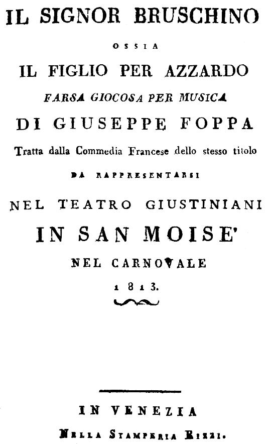 Gioachino Rossini - Il signor Bruschino - titlepage of the libretto - Venice 1813